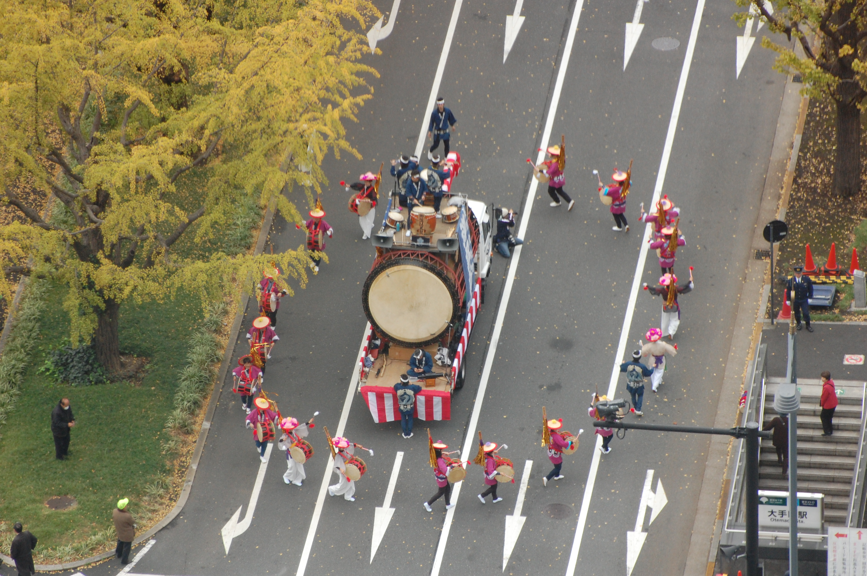 Parade preparations including large drum in front of Otemachi station in Tokyo near Tokyo Imperial Palace during celebration of the 20th anniversary of Emperor Akihito's ascension to the throne.